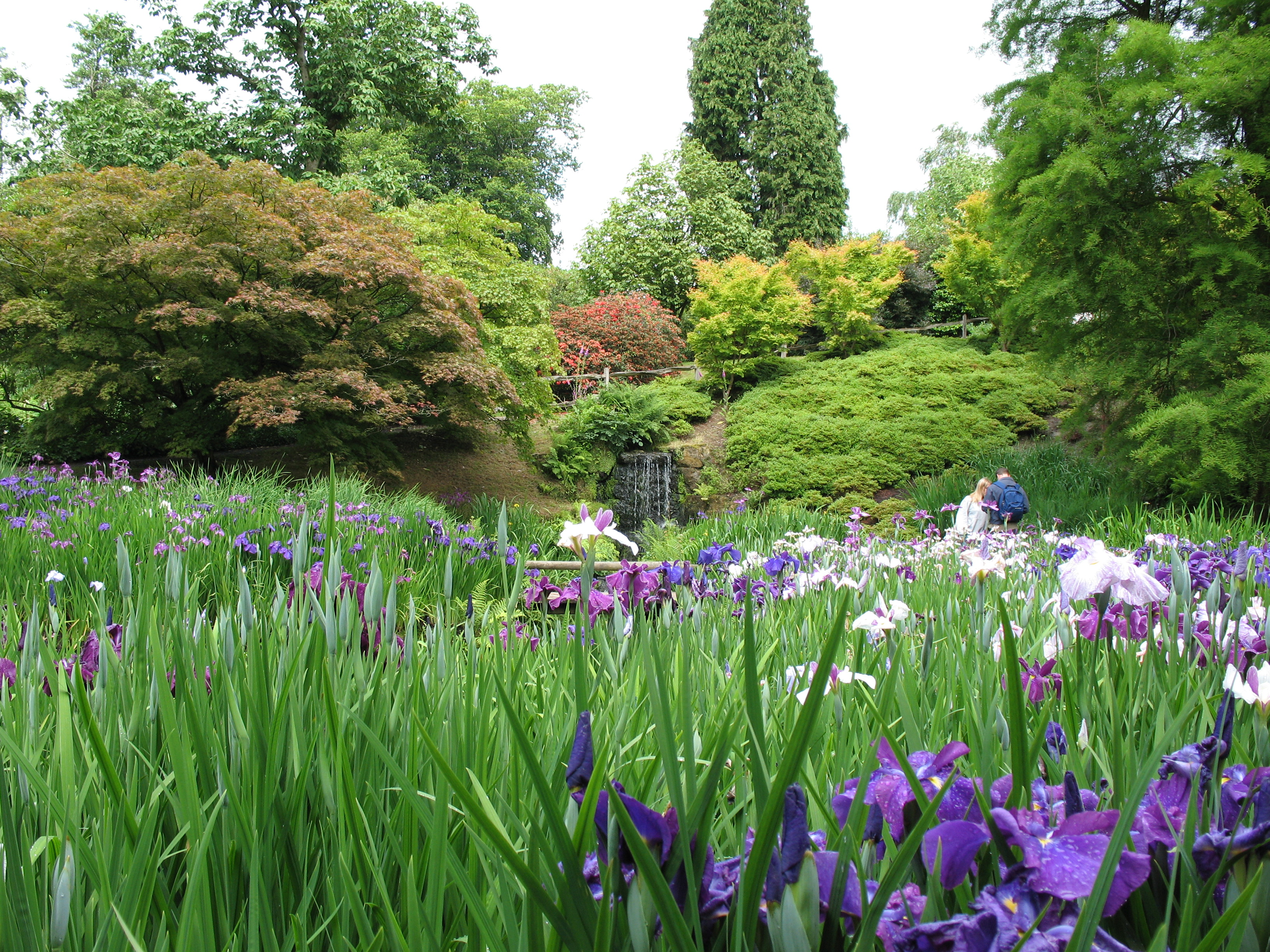 The Japanese Iris garden at Wakehurst Place in June